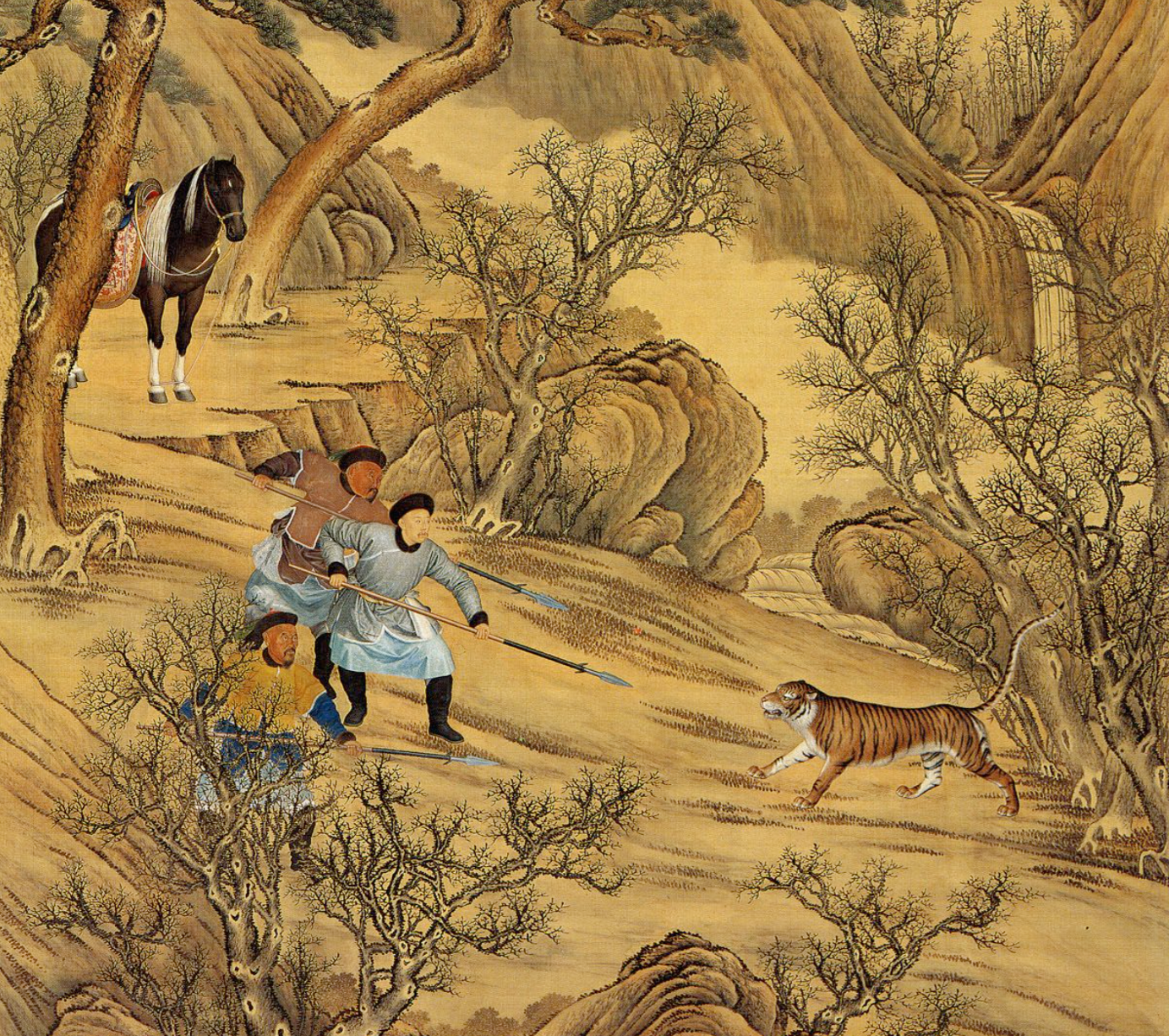 Cropped.